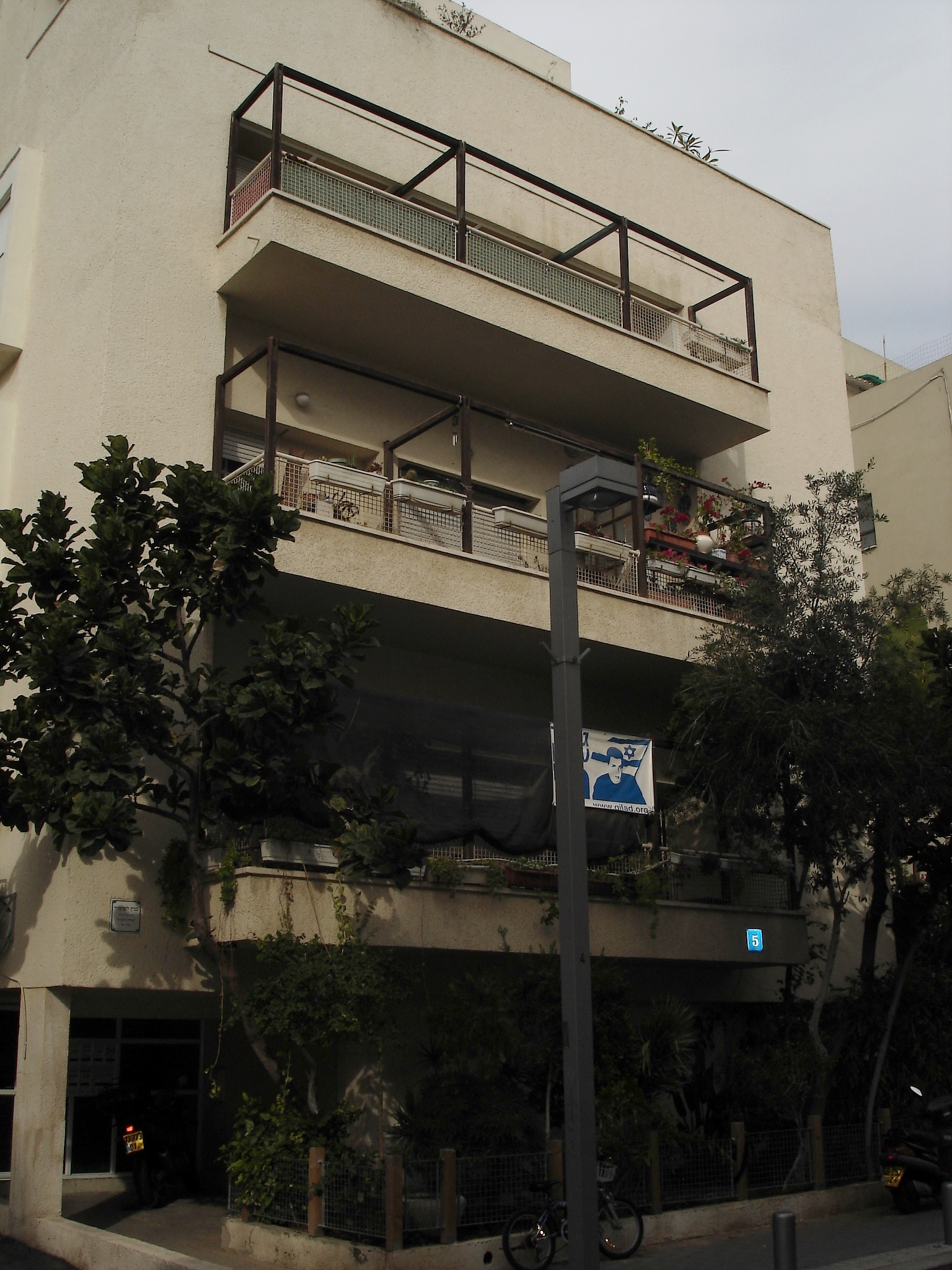 Avezerman House, 5 Bialik St, Tel Aviv, built in 1938 by architect Shlomo Ginzburg